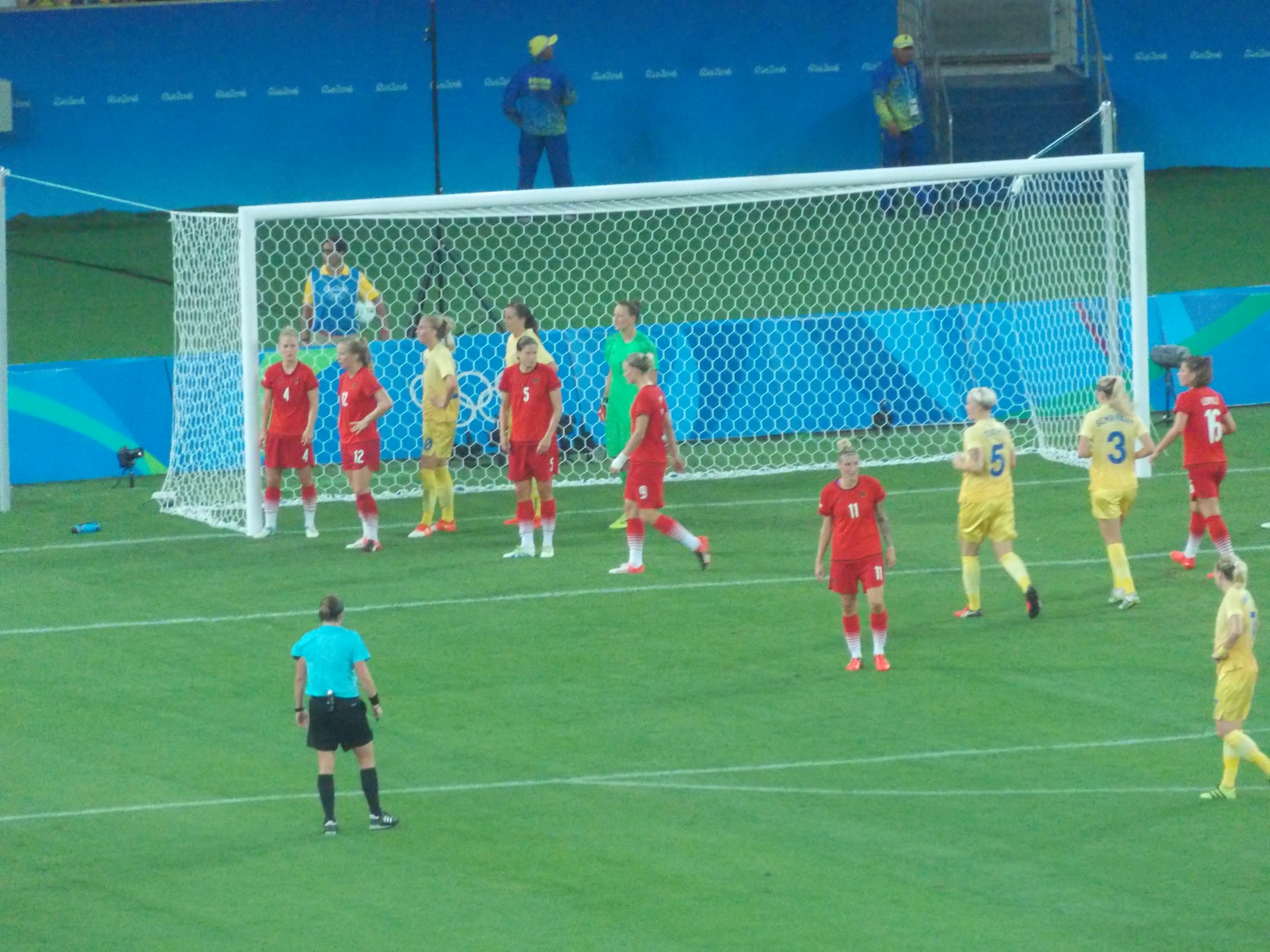 Football at the 2016 Summer Olympics – Women's tournament – Gold medal match.